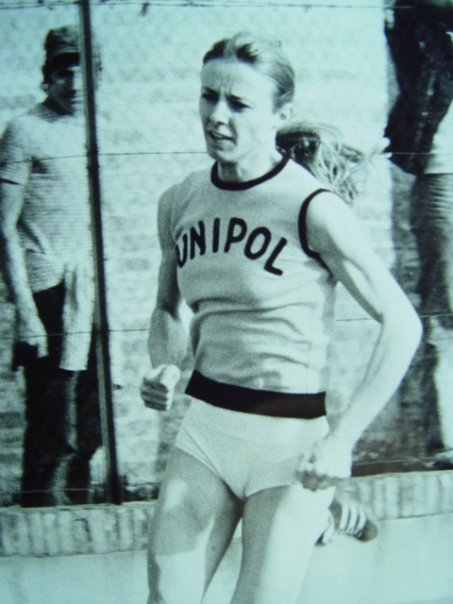 The Italian sprinterer Donata Govoni in Bologna